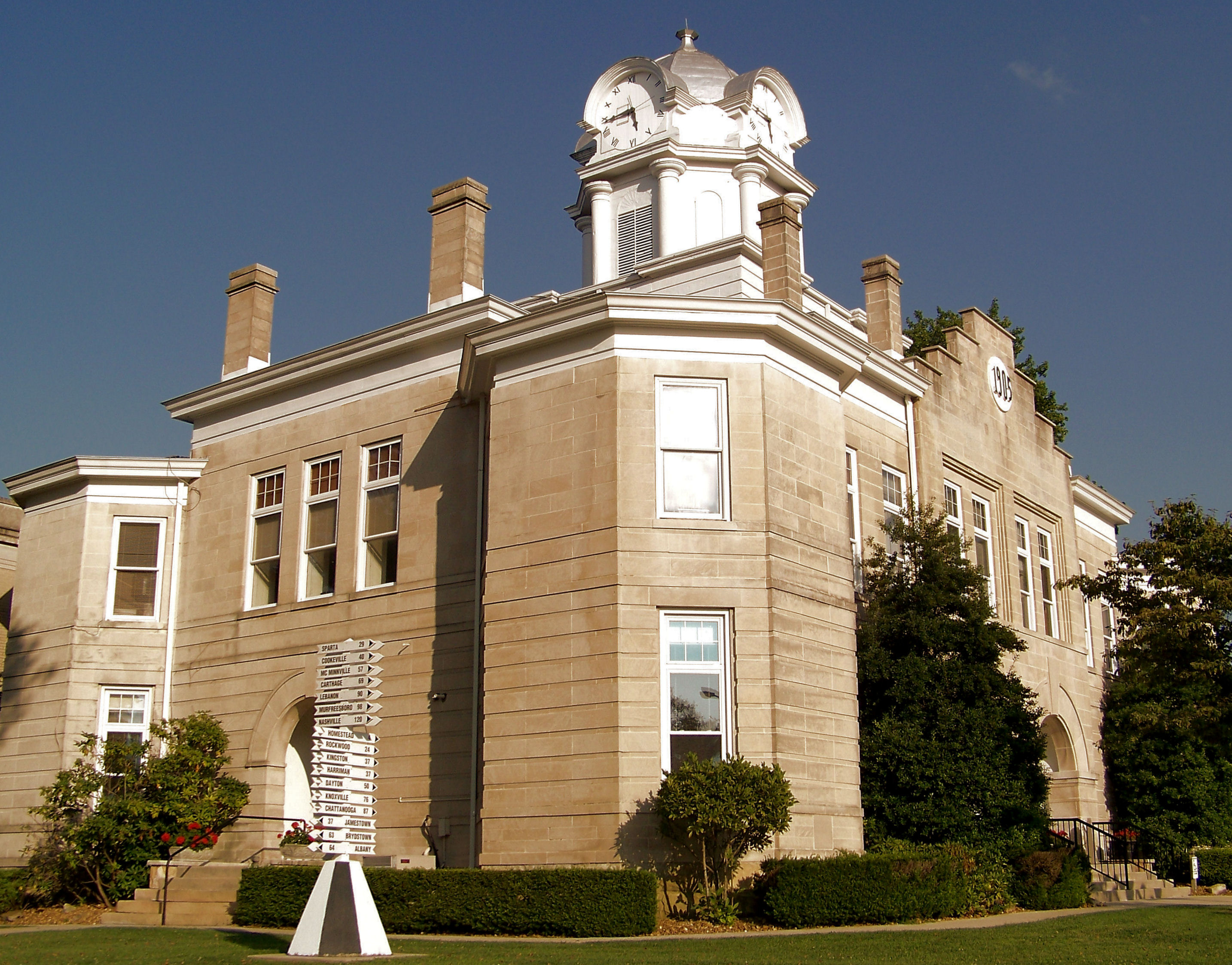 The Cumberland County Courthouse was constructed in 1905 in the city of Crossville, Tennessee.